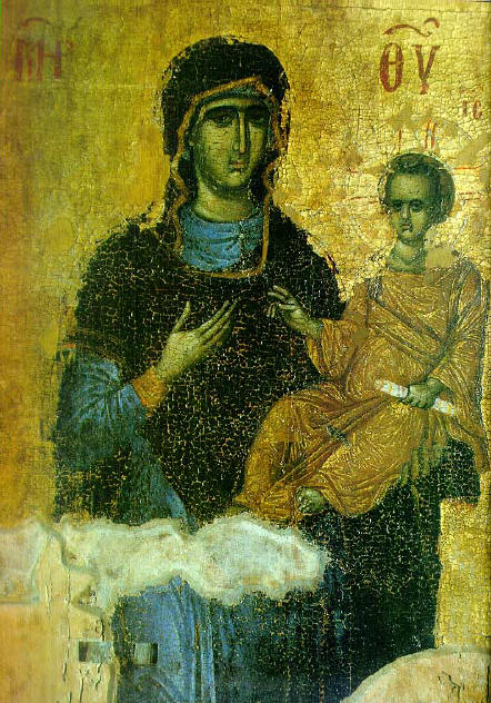 Hodegetria Icon from Saint Nicetas in Banjani circa 1320